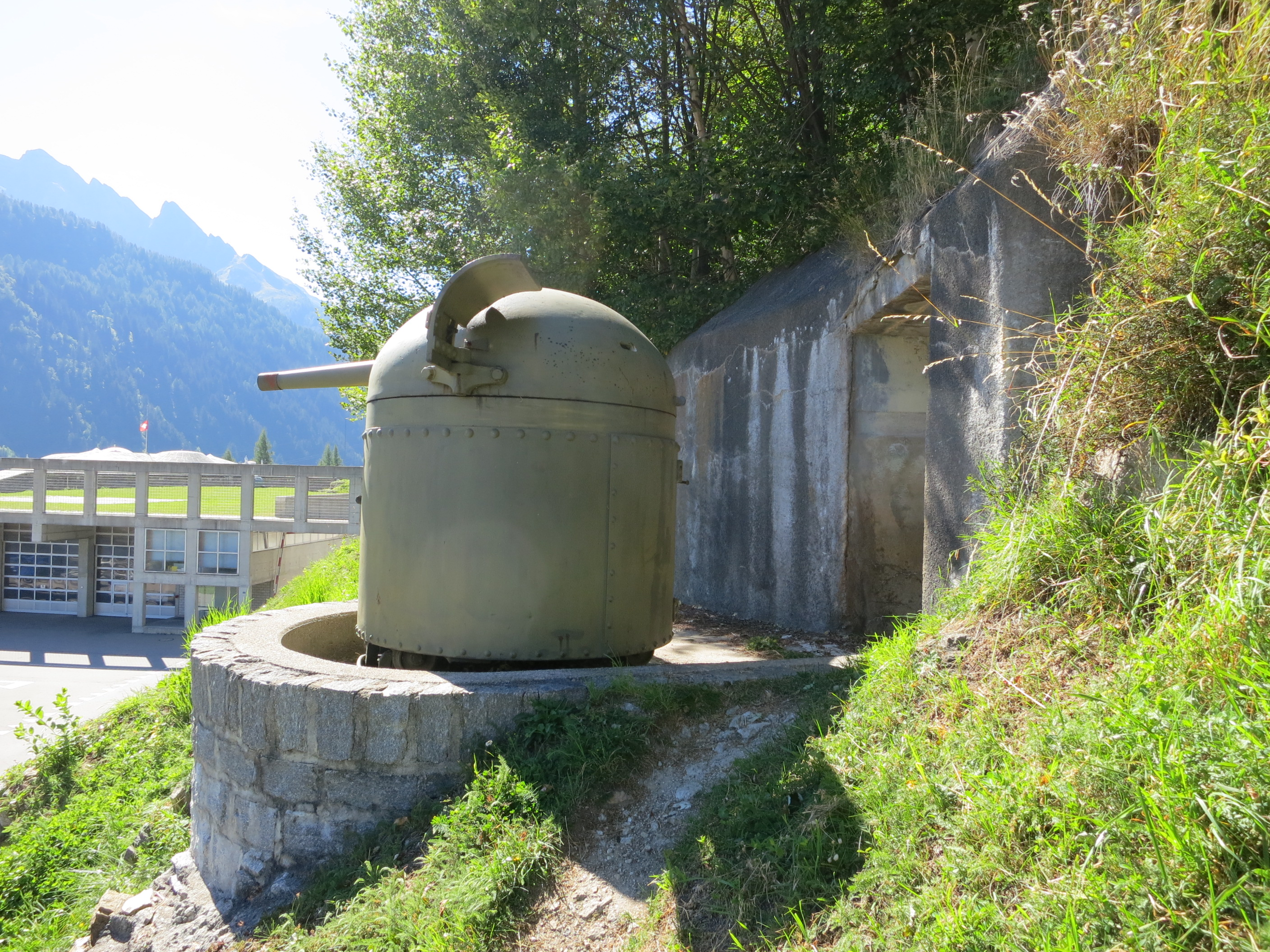 Fahrpanzer, Forte Airolo, Airolo TI, Schweiz